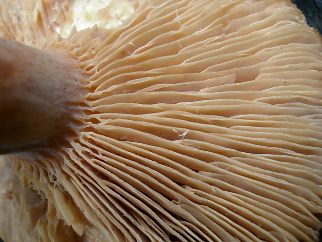 Lactarius helvus (Fr.) Fr. Image location: Lackawanna Co., Pennsylvania, USA Sweet odor reminds me of maple syrup. I’ve found this one many times at this same location. These were some of the largest; one having stem about 8 inches long. Recognized by sight For more information about this, see the observation page at Mushroom Observer.